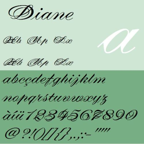 Diane Typeface